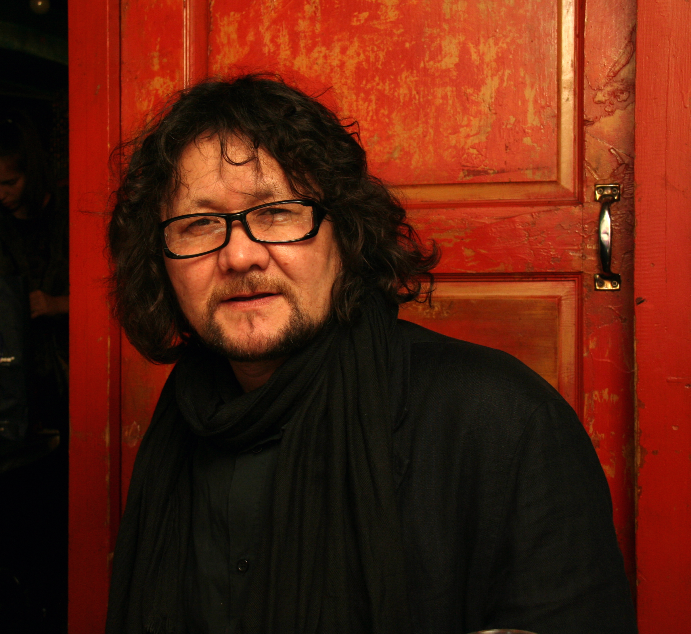 Tuman Zhumabaev, artist.